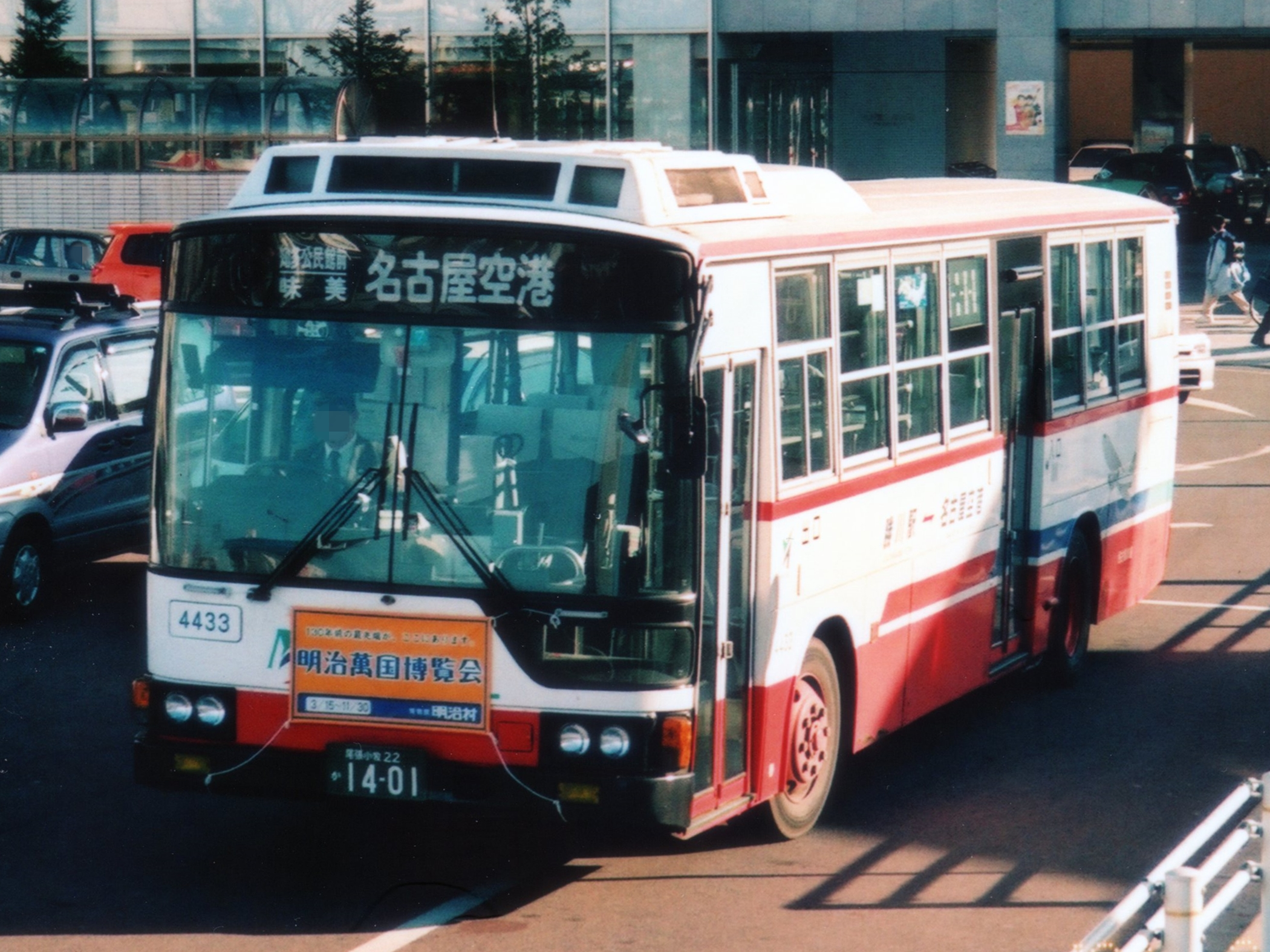 The Bus vehicle of Nagoya Railroad. 名古屋鉄道のバス車両